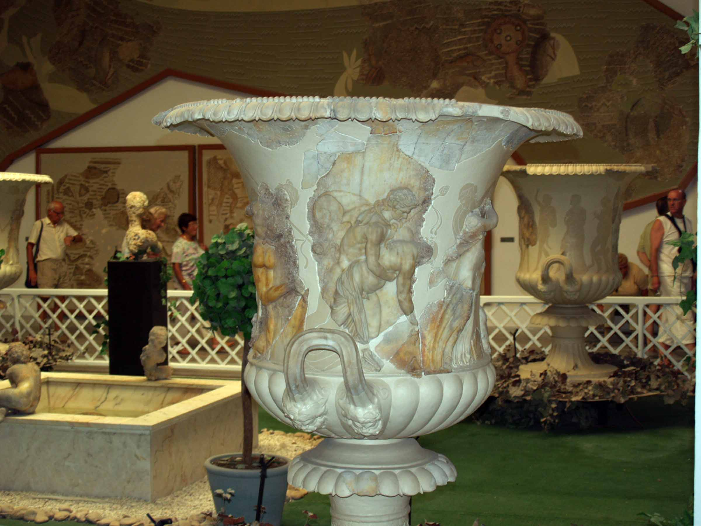 Bardo National Museum.